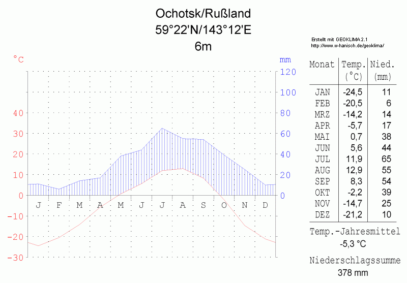 climate chart in the format by Walther and Lieth, metric, °Celsisus and millimeters, made with Geoklima 2.1